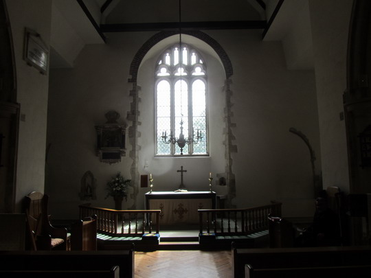 Picture of St Mary Our Lady Sidlesham altar with candlelabra